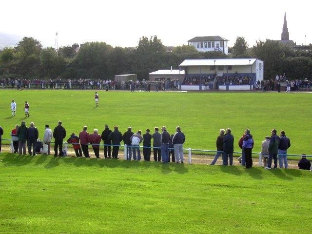 Hamilton Park, Girvan. Football ground. Hamilton Park, home of Girvan FC